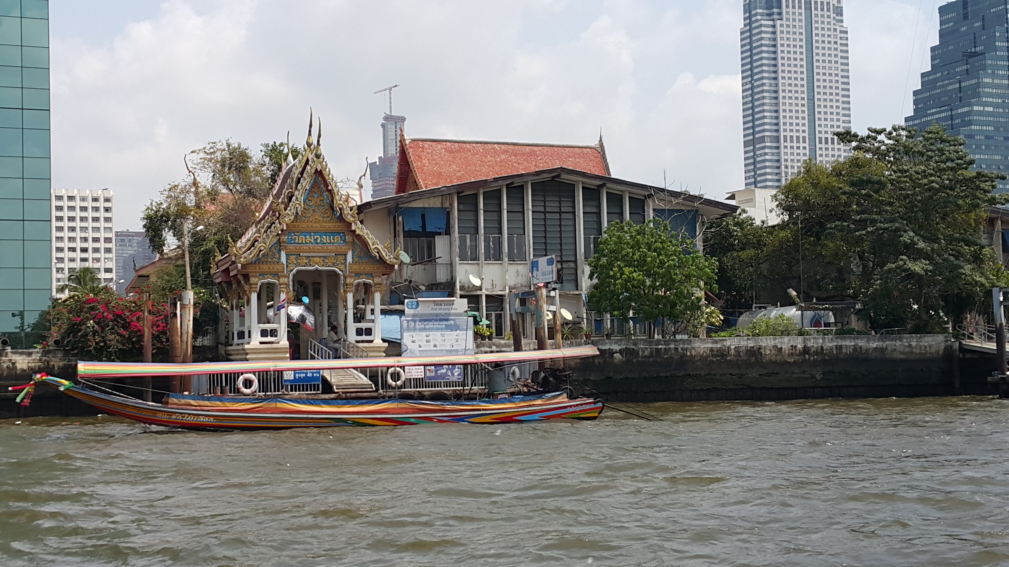 Wat Muang Khae pier Bangkok